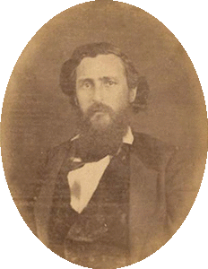 Allison Nelson, legislator and Confederate army officer. Legislative Reference Library of Texas